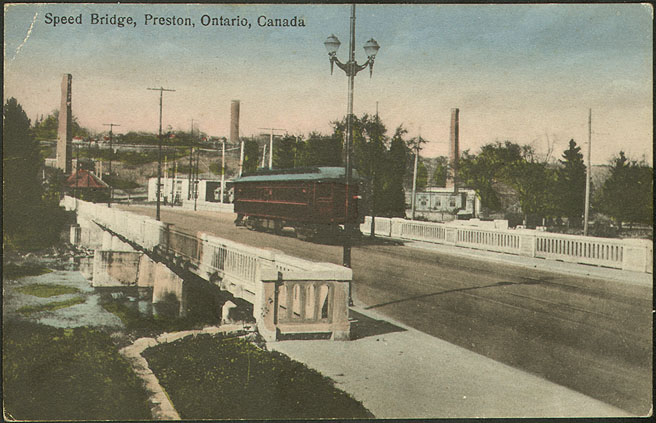 Grand River Railway car on Speed River bridge, Preston. c.1910. Rumsey & Co.